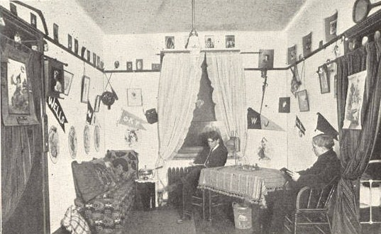 Hays Hall at Washington & Jefferson.